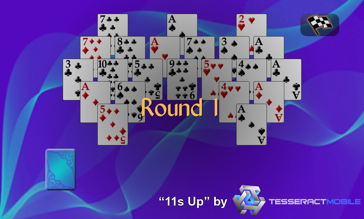 This image is a screenshot of the solitaire game "11s Up".